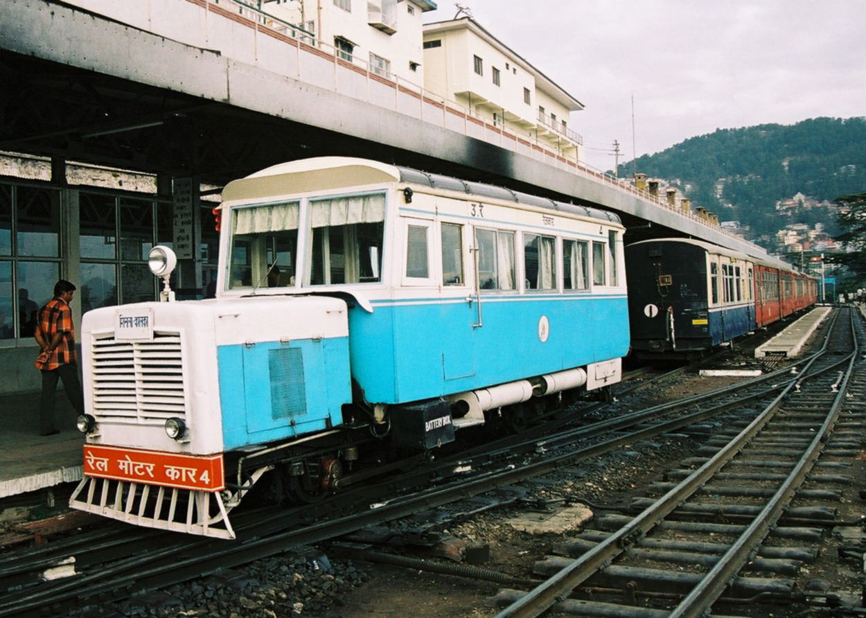 Kalka-Simla Railway. Railcar No.4 at Shimla Station ready to leave for Kalka. Behind the single vehicle railcar are the carriages for a normal passenger train that will follow it down the line. 13th February 2005 Photographer - A.M.Hurrell Camera - Minolta X700 (35mm film) Modified - Scanned by film developer. File size and definition changed using Adobe Photoshop 5.0LE